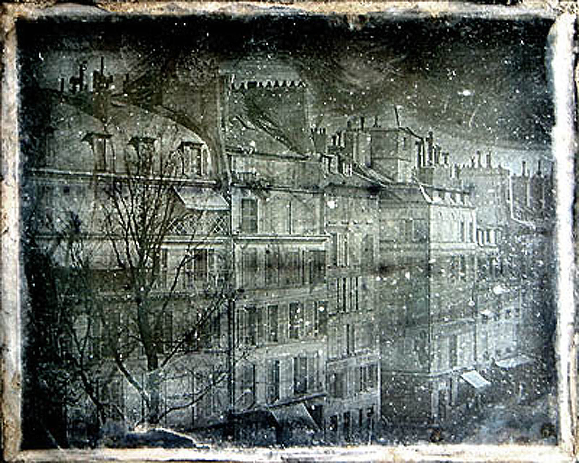 View from the Daguerres house